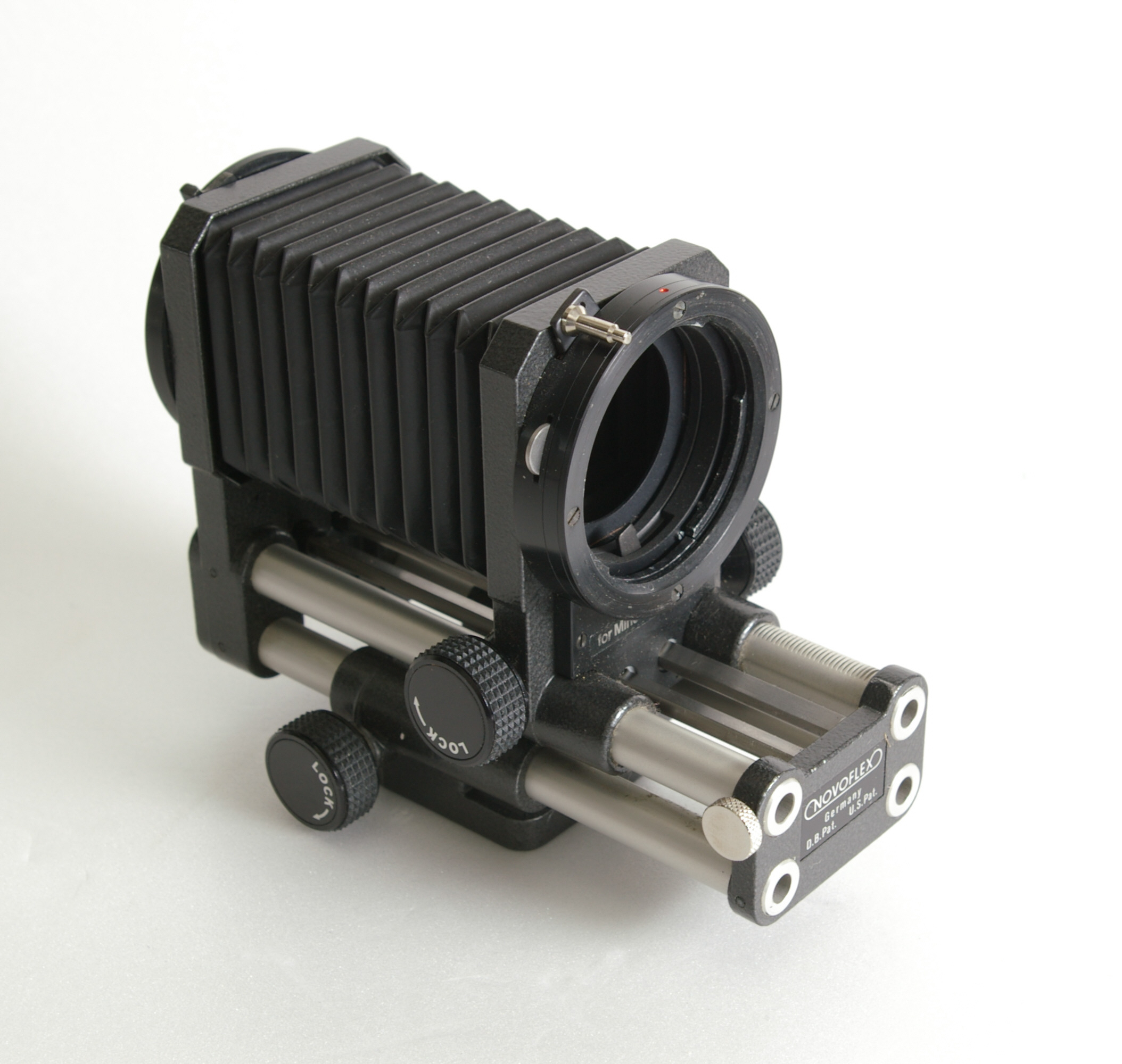 Auto bellows Novoflex BALMIN-AS for use with Minolta manual focus lenses